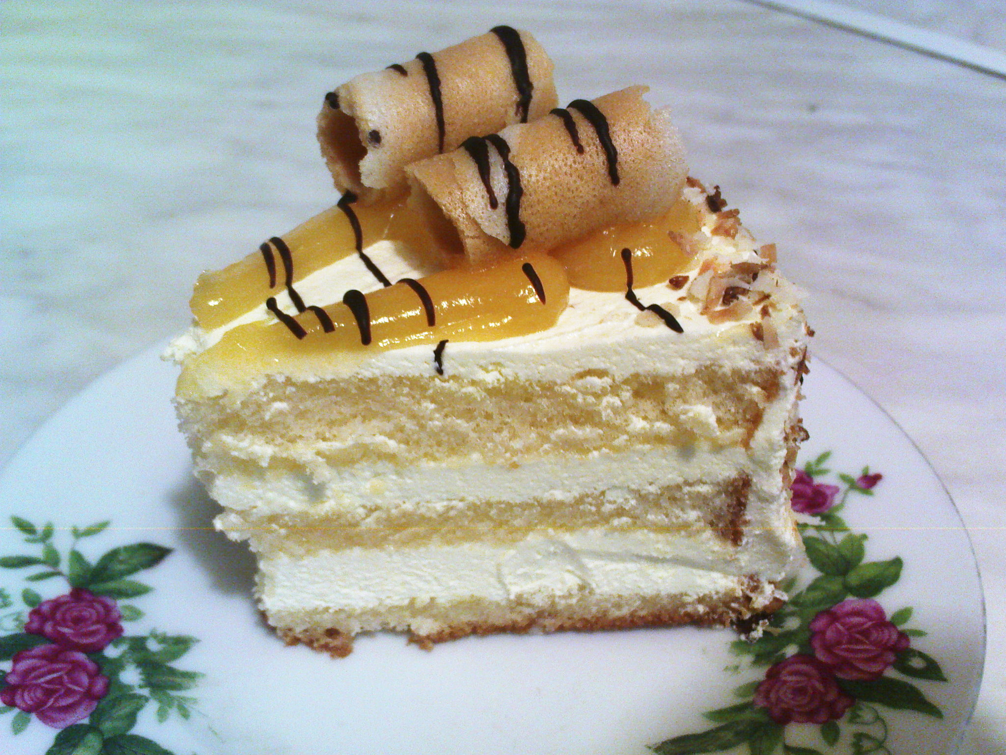 Eggnog cake